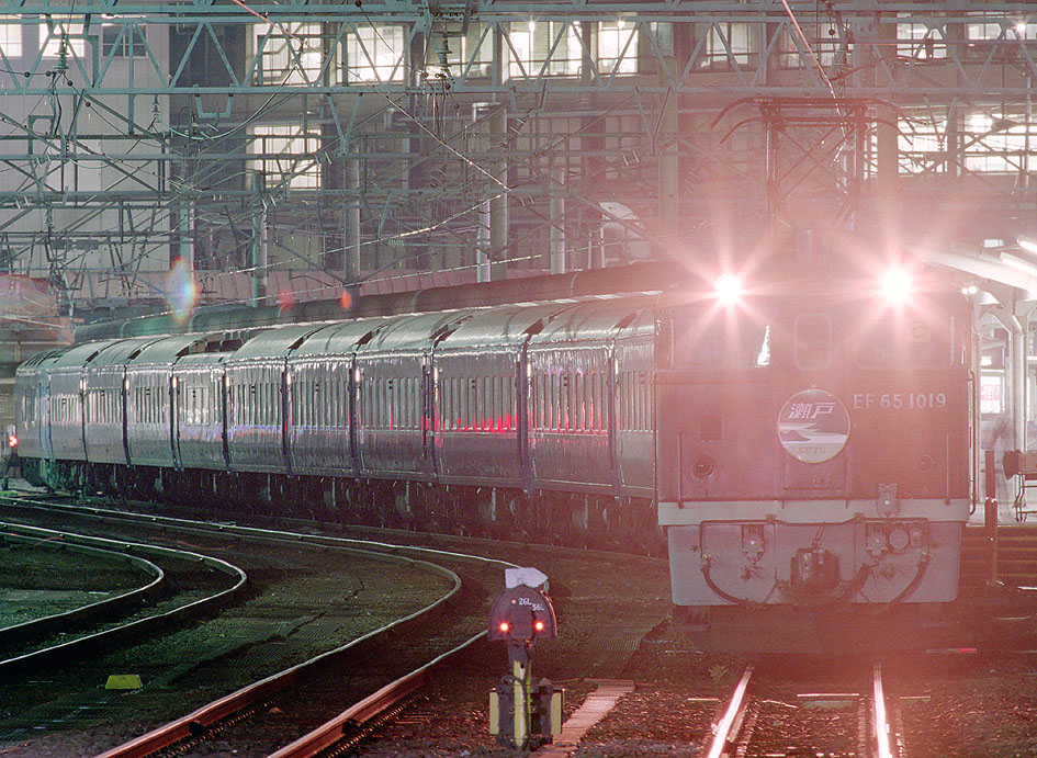 Class EF65-1000 electric locomotive EF65-1019 hauling the Seto overnight sleeper service at Takamatsu Station in Shikoku